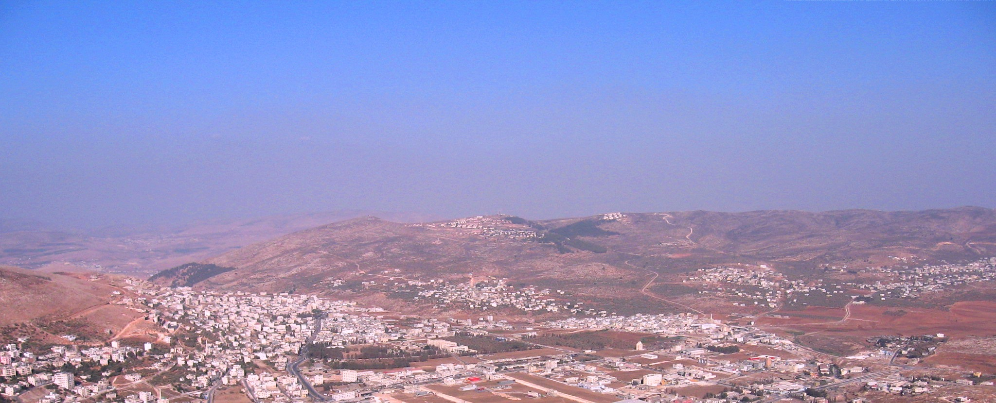 har kabir as viewed from Har Gerizim. Up on the mountain is Elon Moreh. Beneath the larger portion of Elon Moreh is Azmut. The densely built area more to the left is north east Nablus. On the right is Salim and to its left is Deir al-Hatab. Still to the left is Askar camp, and more to the left is Azmut, mentioned above.